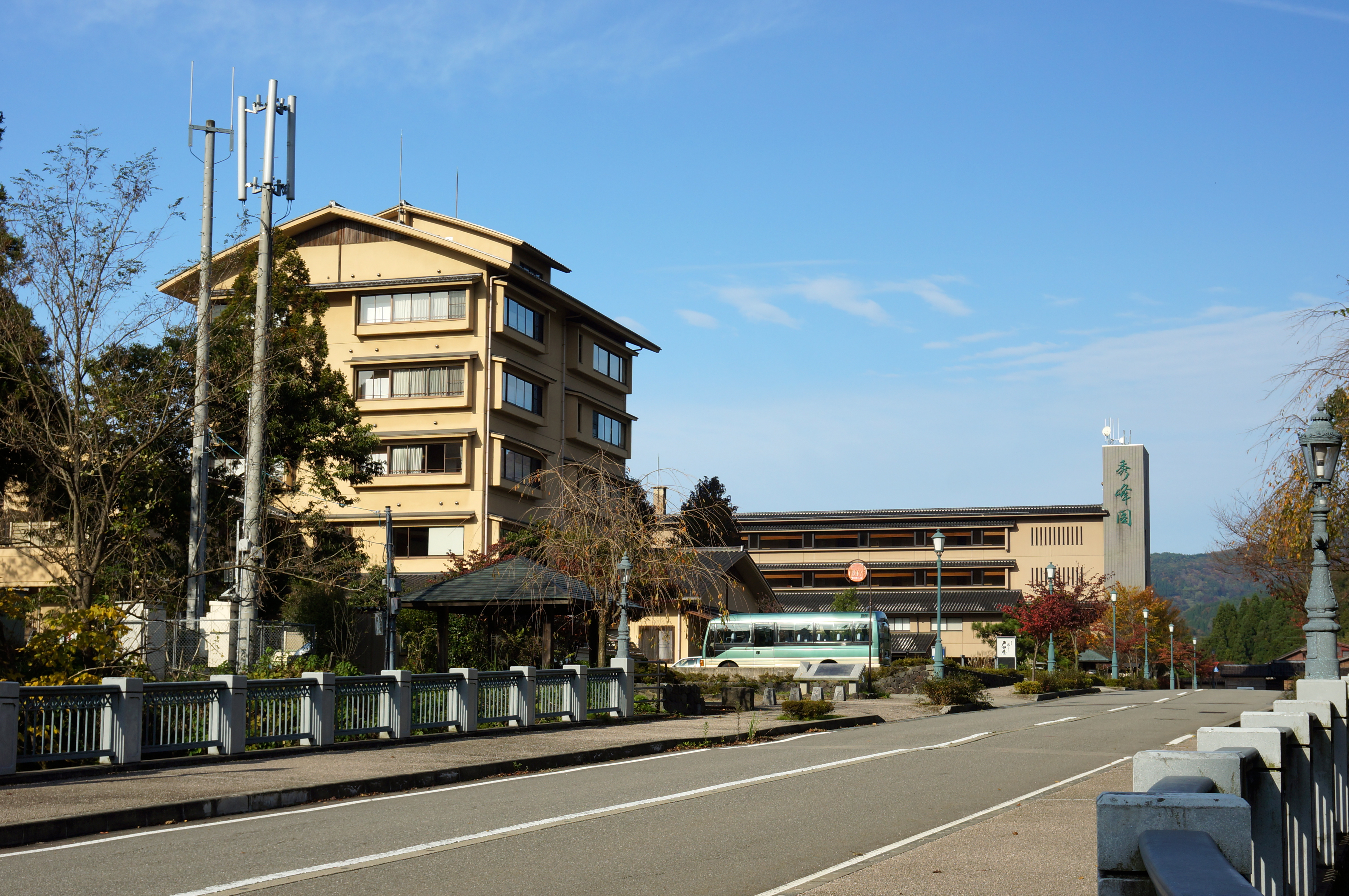 At Yuwaku Onsen in Kanazawa, Ishikawa prefecture, Japan.